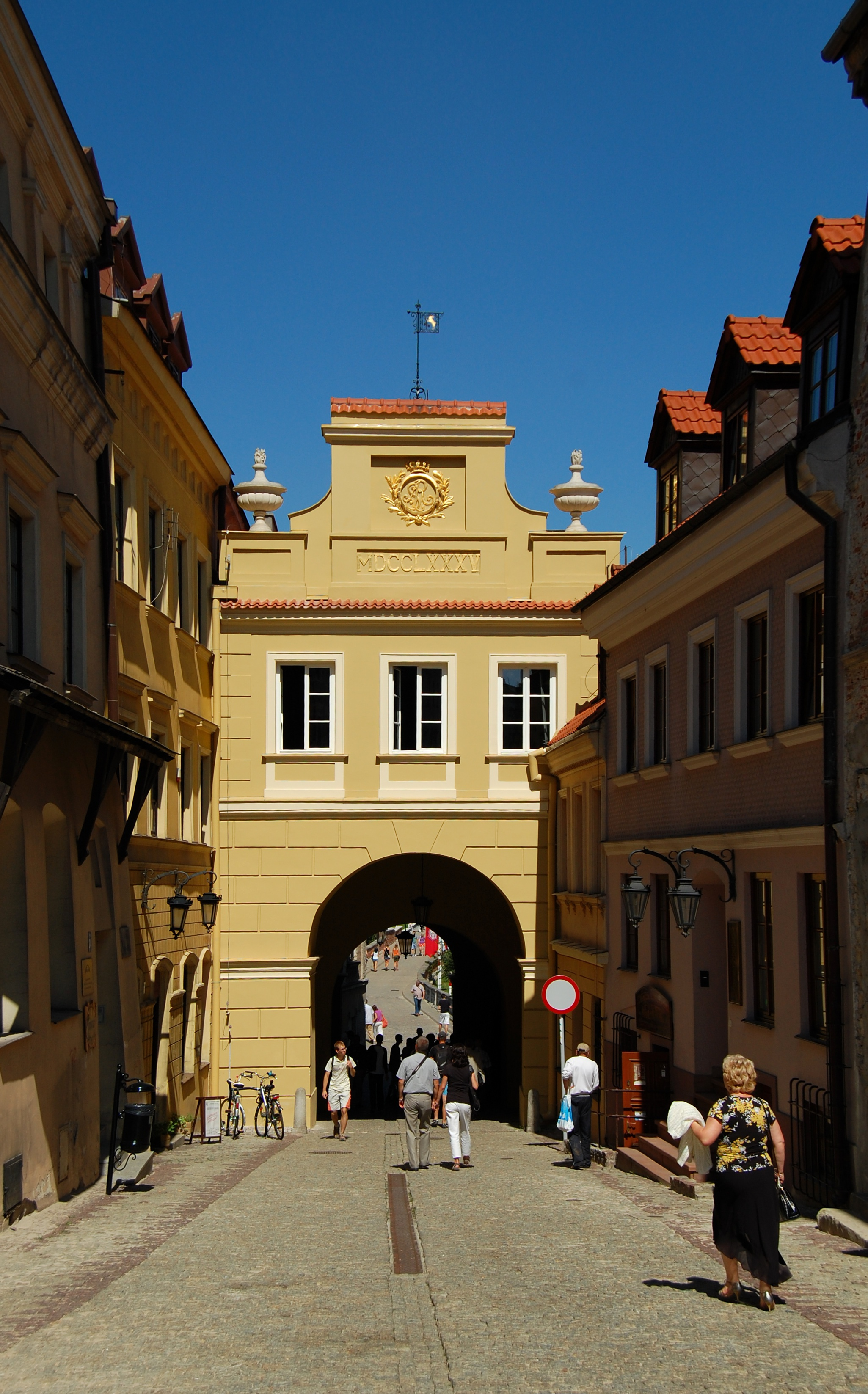 Grodzka Gate, Lublin, Poland.